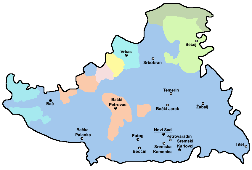 Ethnic map of South Bačka District Serb majority Mixed population with Serb plurality Hungarian majority Mixed population with Hungarian plurality Slovak majority Mixed population with Montenegrin plurality Mixed population with Rusyn plurality